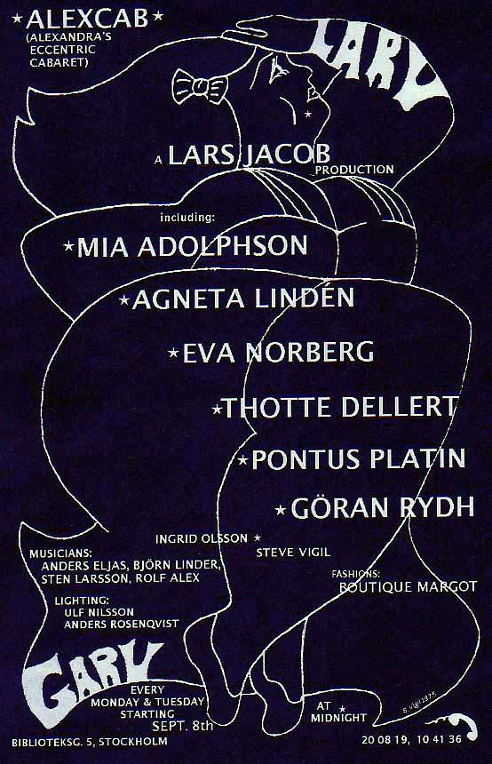 AlexCab poster, as released by image creator Lars Jacob ProdPlace: Alexandra's, Biblioteksgatan 5, Stockholm, Sweden